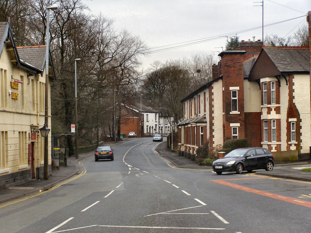 Birch